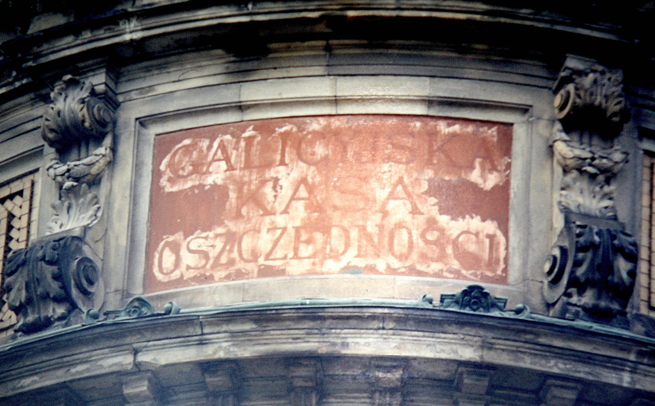 Lwów. A plaque in Polish on the former building of the Galician Savings Bank.